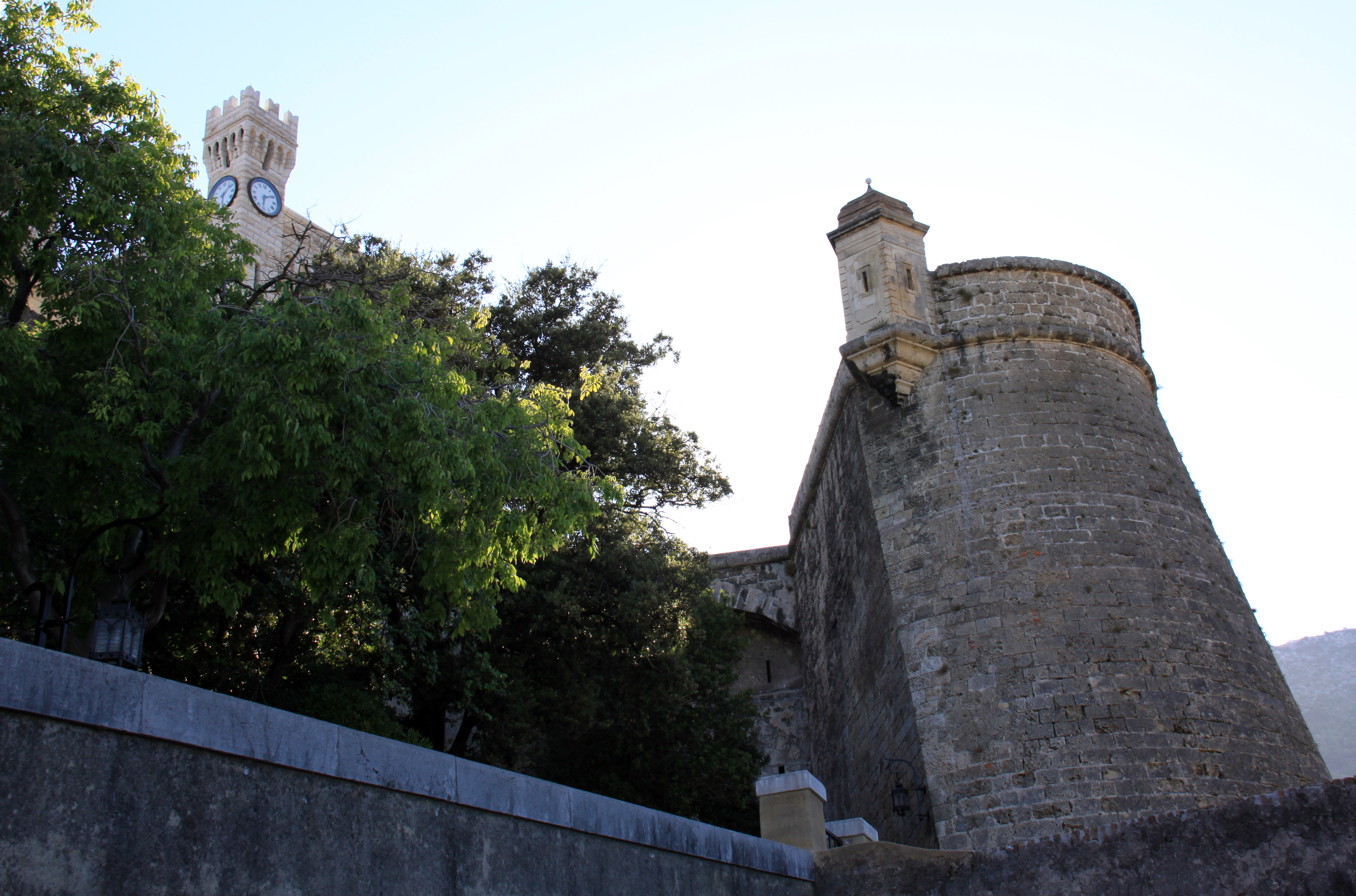 Monaco, Palais